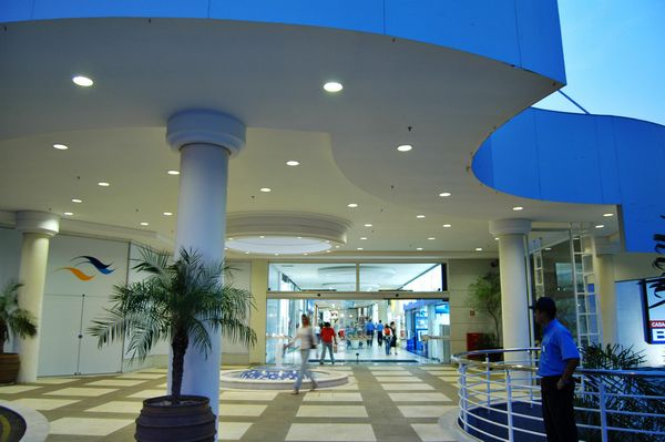 Prudenshopping, entrance